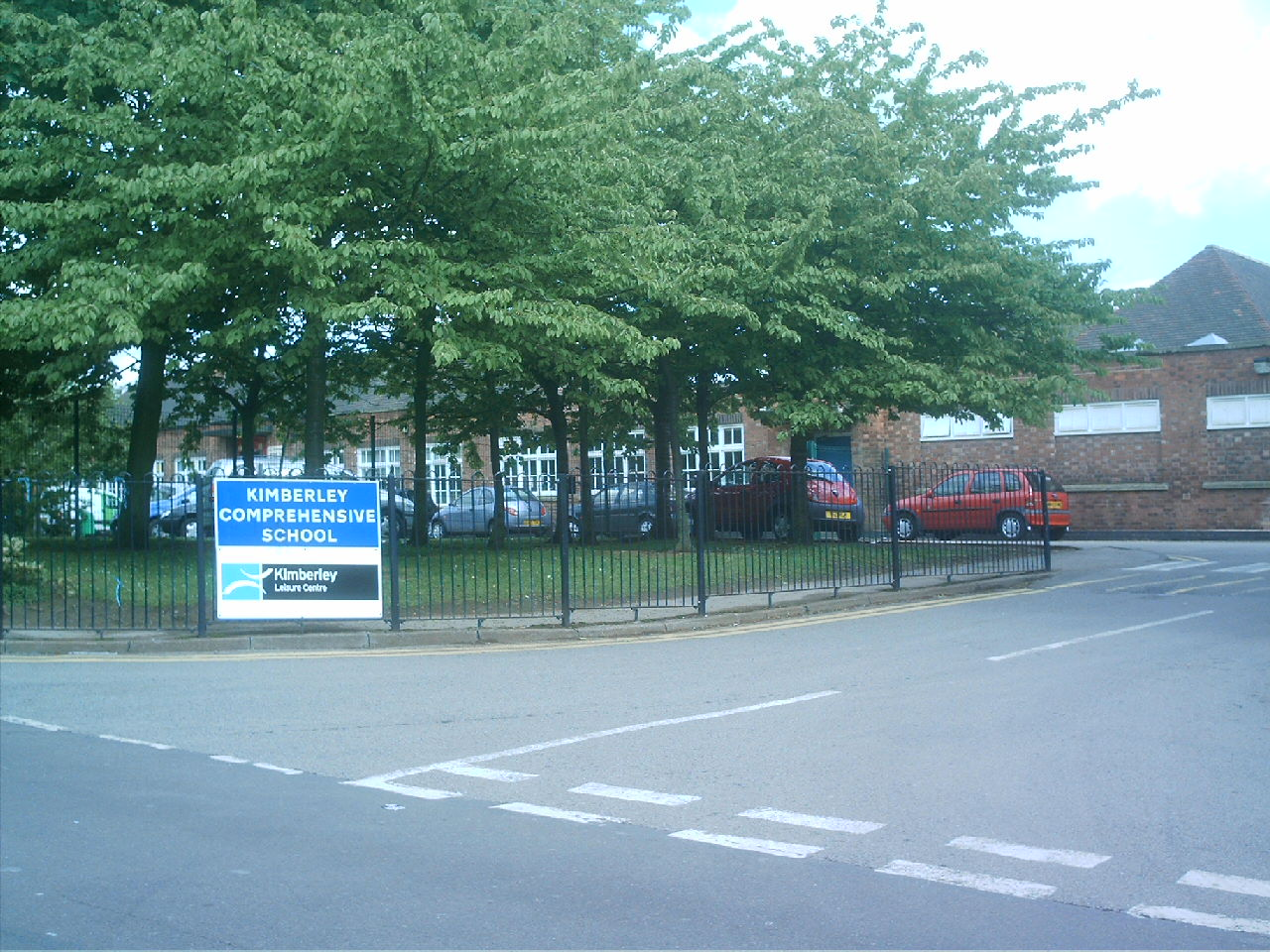 Kimberley Comprehensive Entrance - Nottinghamshire